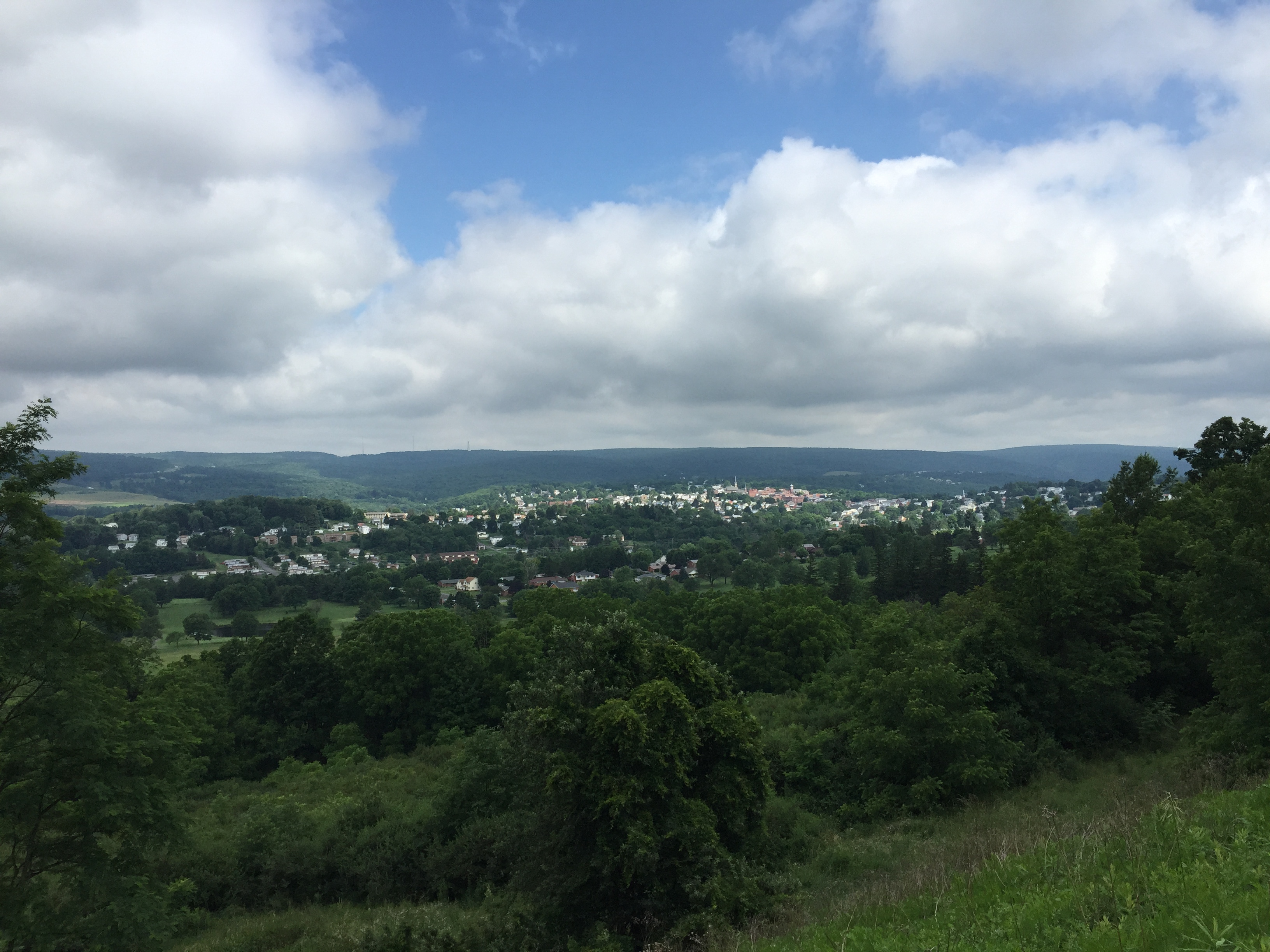 View of Frostburg, Allegany County, Maryland from Maryland State Route 36 (New Georges Creek Road) just north of Interstate 68 (National Freeway)